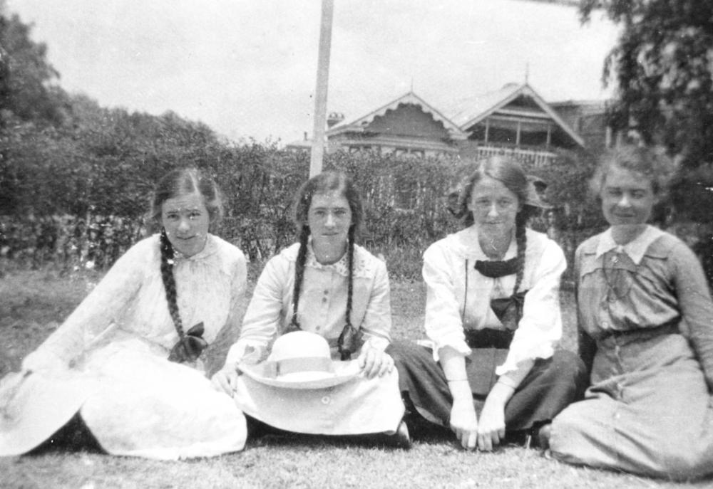 Brisbane Girls Grammar School students relaxing on the grass, 1914 Pictured from left to right: May Gasteen, Agnes Moore, Jean Hertzberg, Josephine Bancroft before an exam. (Description supplied with photograph.).